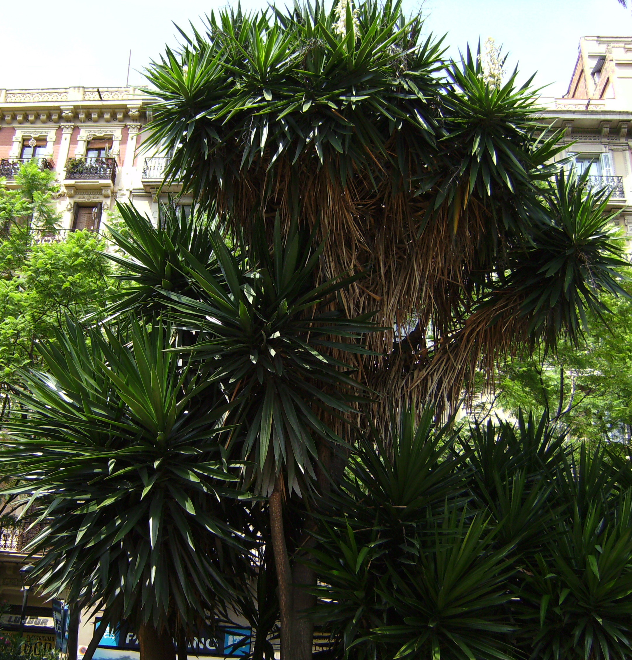 Yucca elephantipes, Barcelona, Letamendi Square